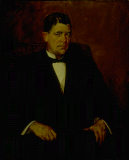 Governor James Hanly of Indiana